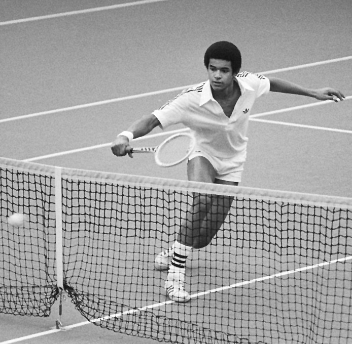 French tennis player Yannick Noah in a 1979 Davis Cup match against The Netherlands in Amsterdam